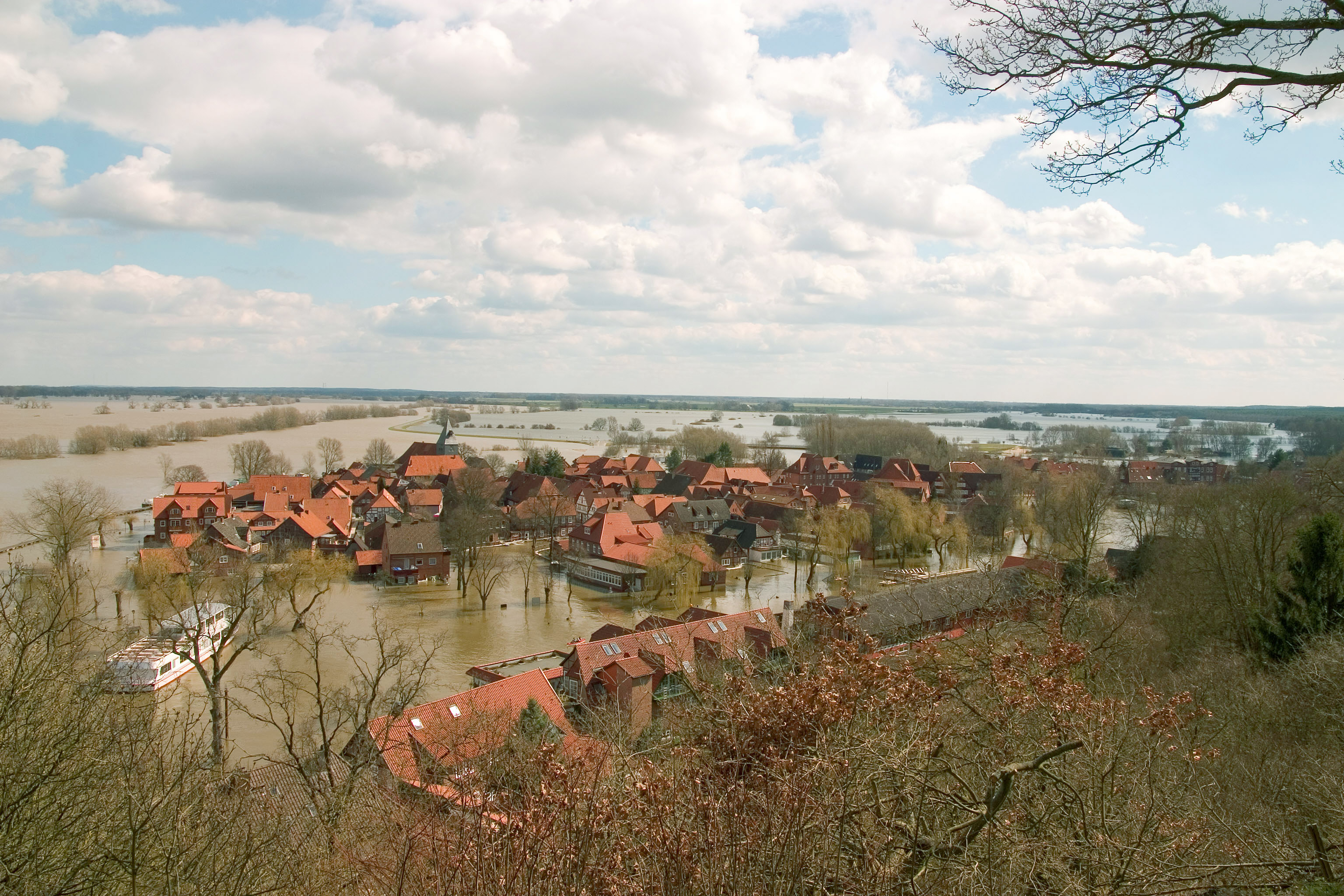 View of the old town of Hitzacker (Elbe) in Lower Saxony, Germany, inundated during the Elbe flood in spring 2006.